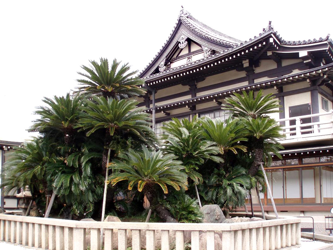 Over 1100 years old Cycas revoluta at Myōkoku-ji, Sakai, Japan